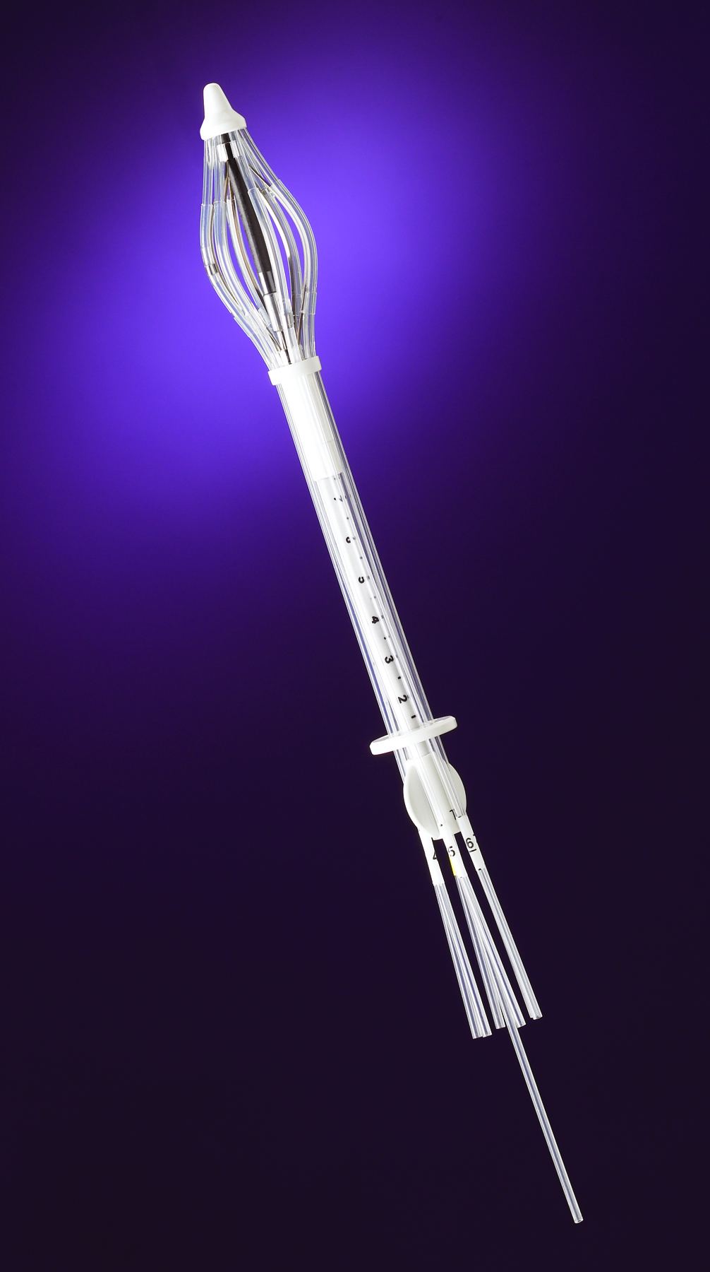 Source: Jaclyn Landon for Cianna Medical, Inc., 6 Journey, Suite 125, Aliso Viejo, California 92656. Original uploader was .